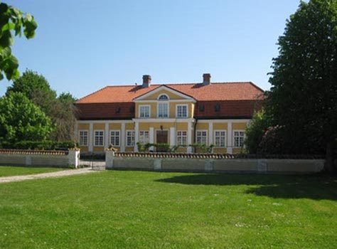 skaggsgard manor